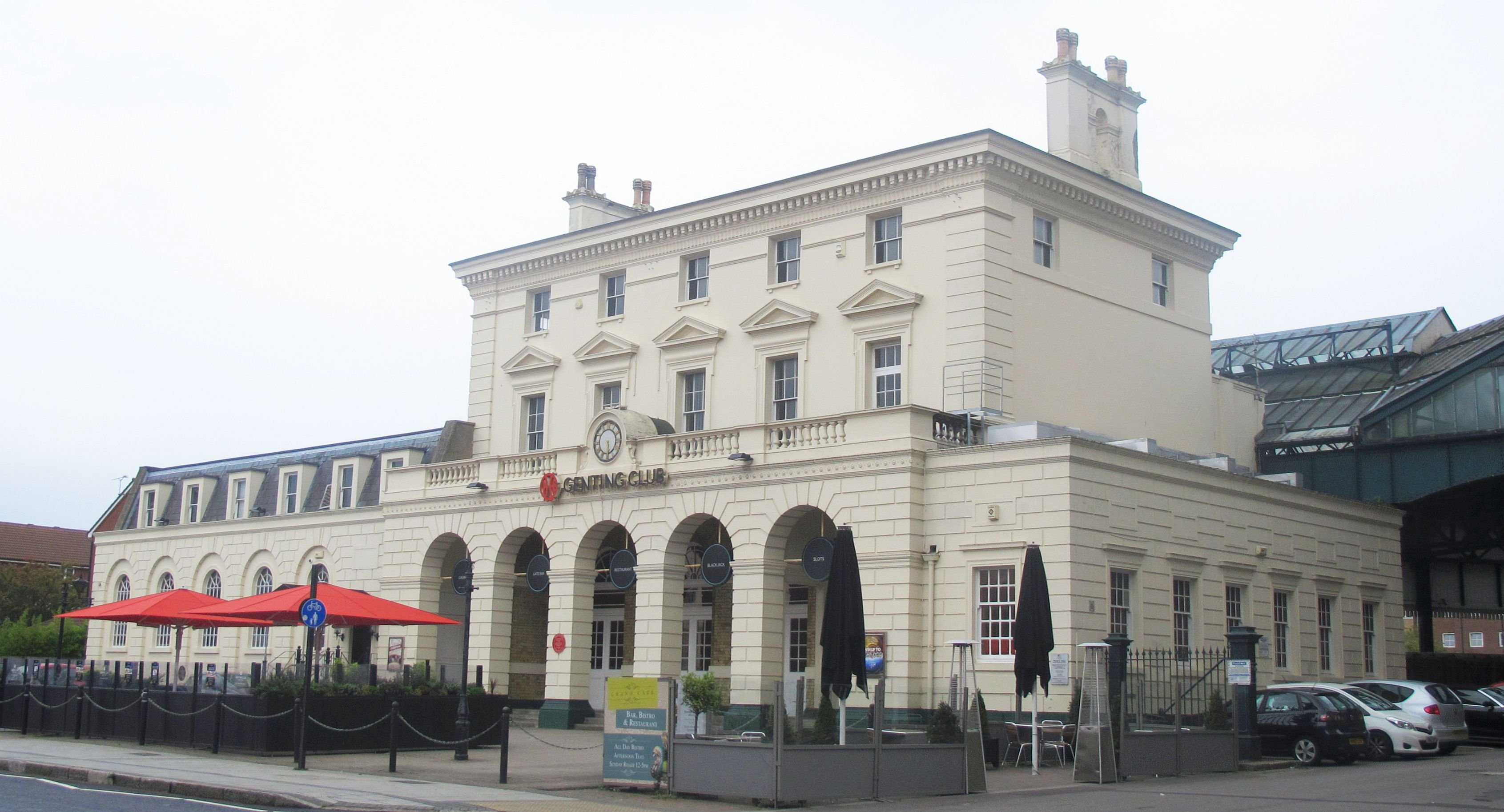 Former Southampton Terminus Station building, now a casino. Wikidata has entry Q17554970 with data related to this building.